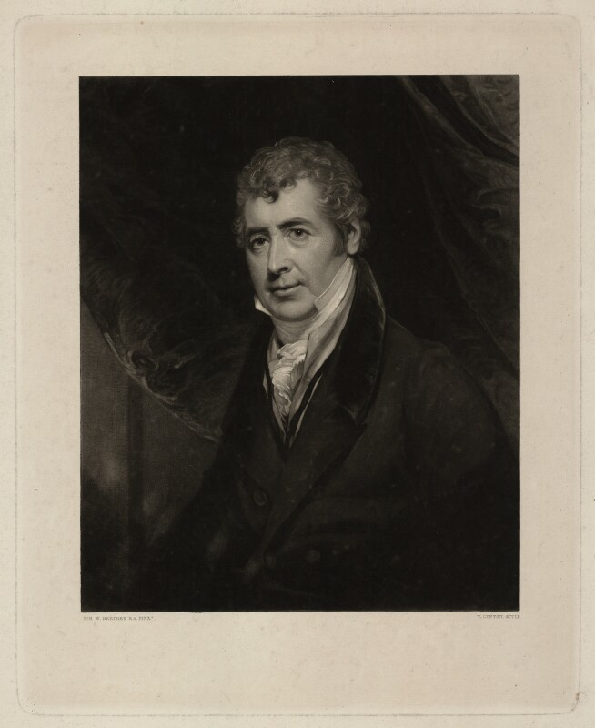 Portrait of Lancelot Baugh Allen (1774–1845), Master of Dulwich College, England.